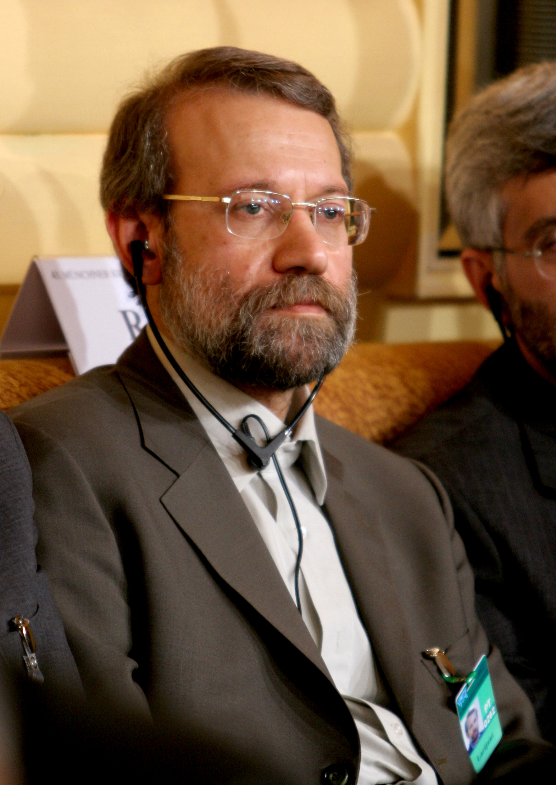 43rd Munich Security Conference 2007: The Secretary of Supreme National Security Council of the Islamic Republic of Iran, Dr. Dr. Ali Larijani.